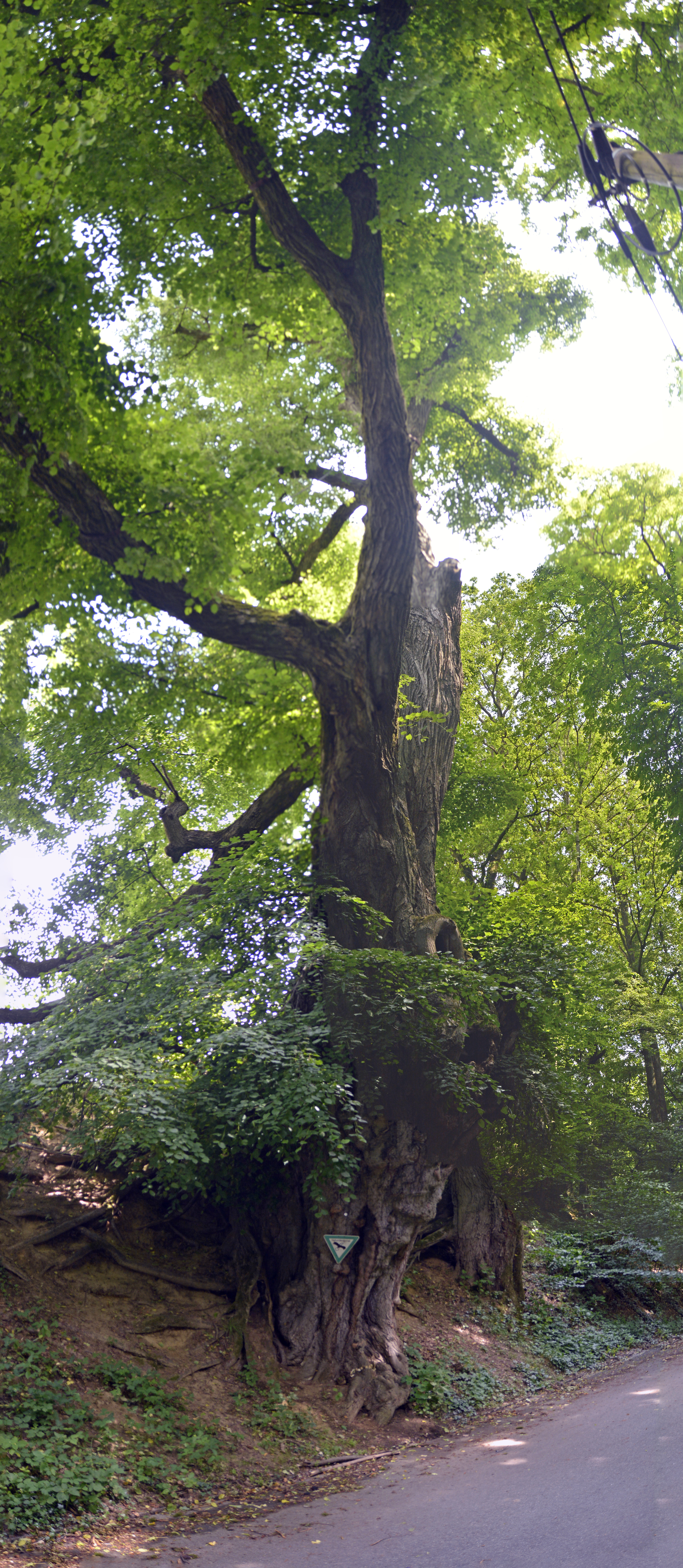 Hollow Linden in Obermarbach